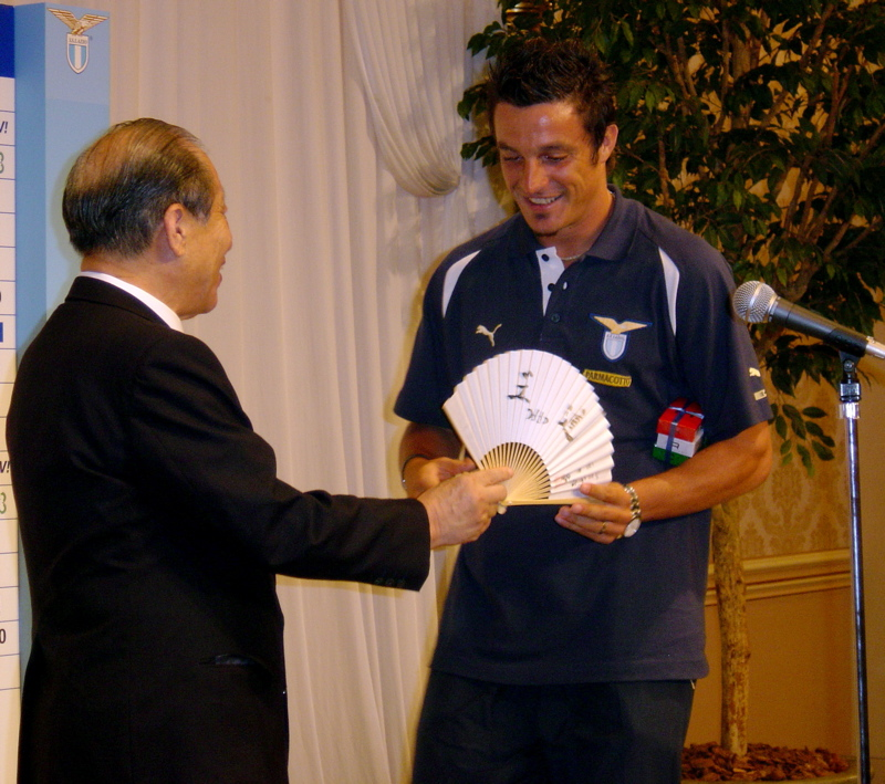 Massimo Oddo in Sendai, Japan (July 2004). Oddo is receiving a commemorative fan from the mayor of Sendai. The fan has Oddo's name in kanji: 王道, literally "Road of the King".